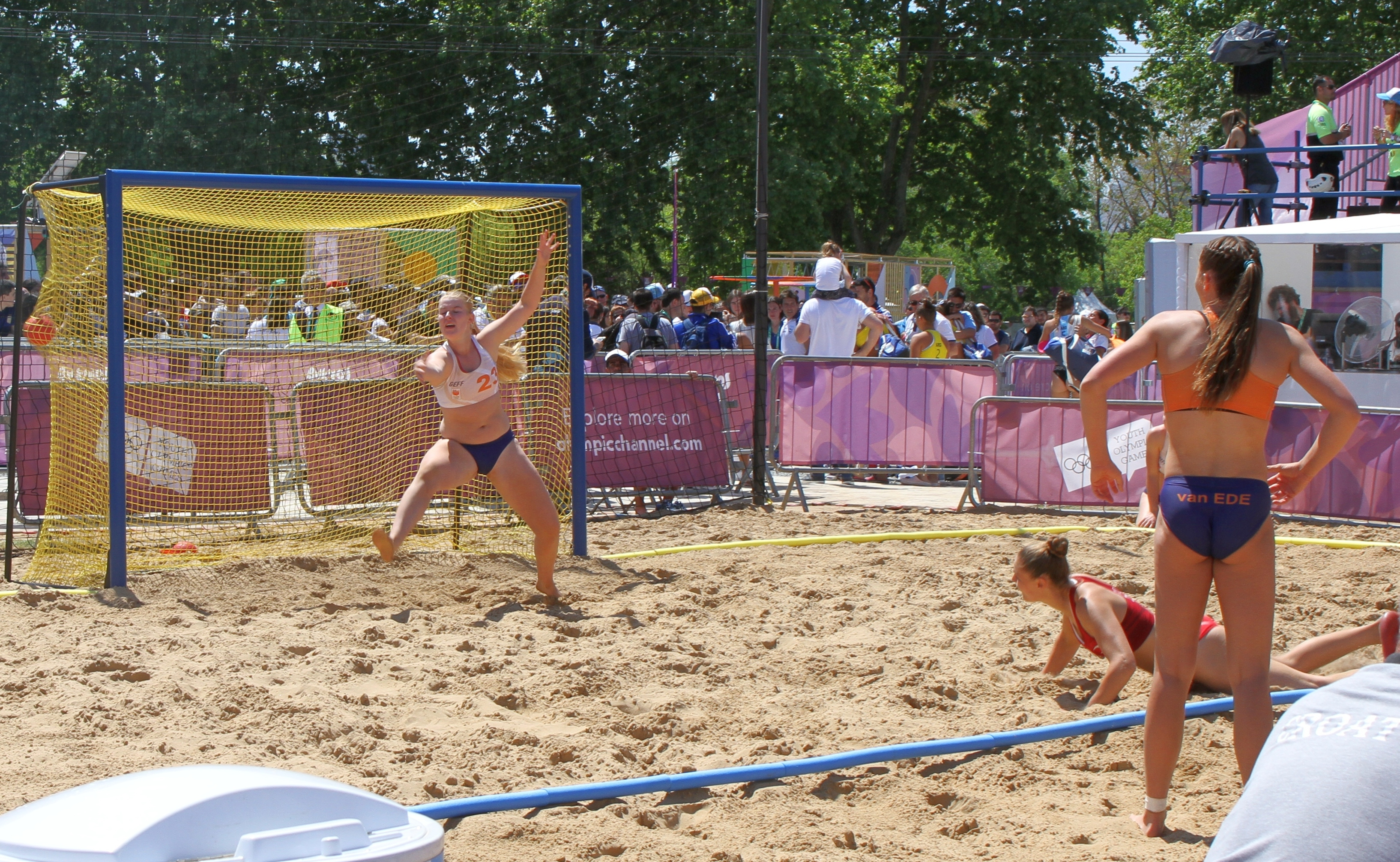 Beach handball at the 2018 Summer Youth Olympics in Buenos Aires at 13 October 2018 – Girls Semifinal – Netherlands-Croatia 0:2